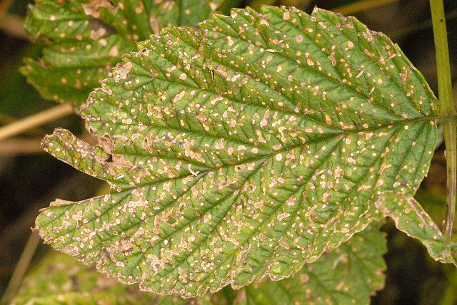 Elsinoë veneta from Commanster, Belgium. If you think this is a different taxon, please contact James Lindsey.